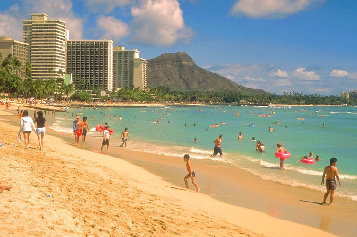 Waikiki Beach, Honolulu, Hawaii.